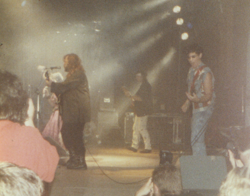 Rez Band aka Resurrection Band aka REZ playing live in concert, August 1988.